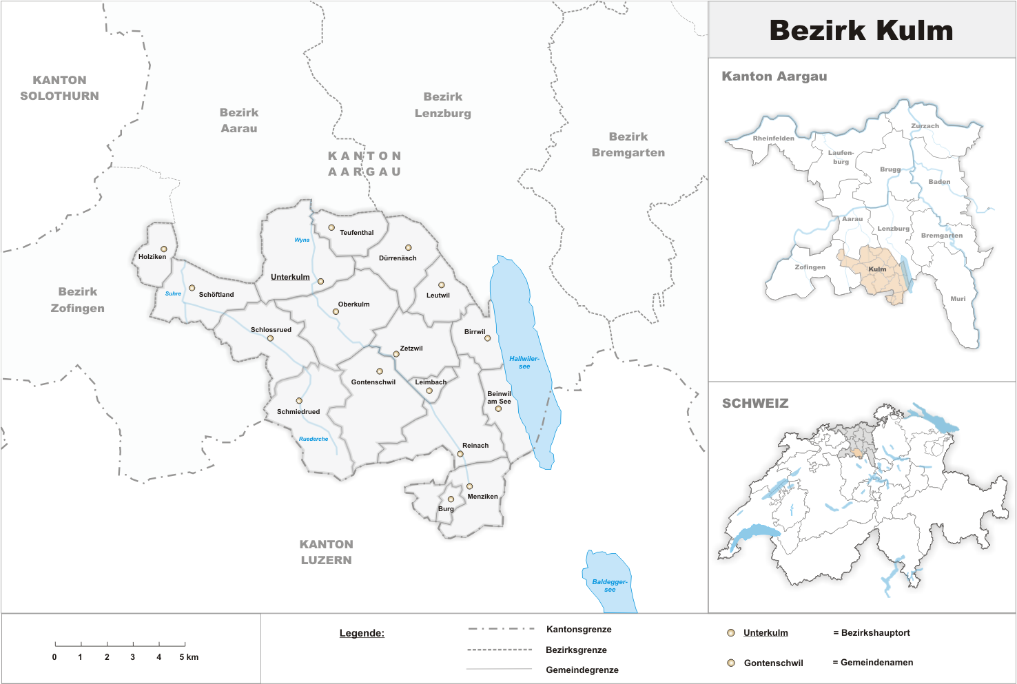 Municipalities in the district of Kulm